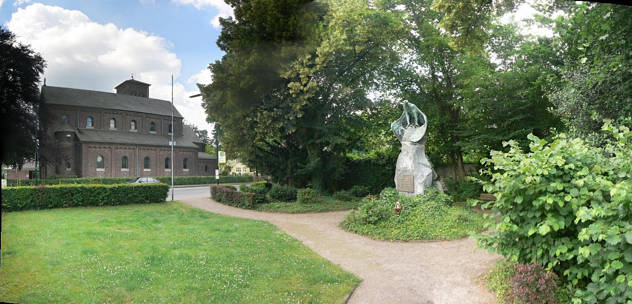 An impression of Lohausen (Düsseldorf) - the catholic church=